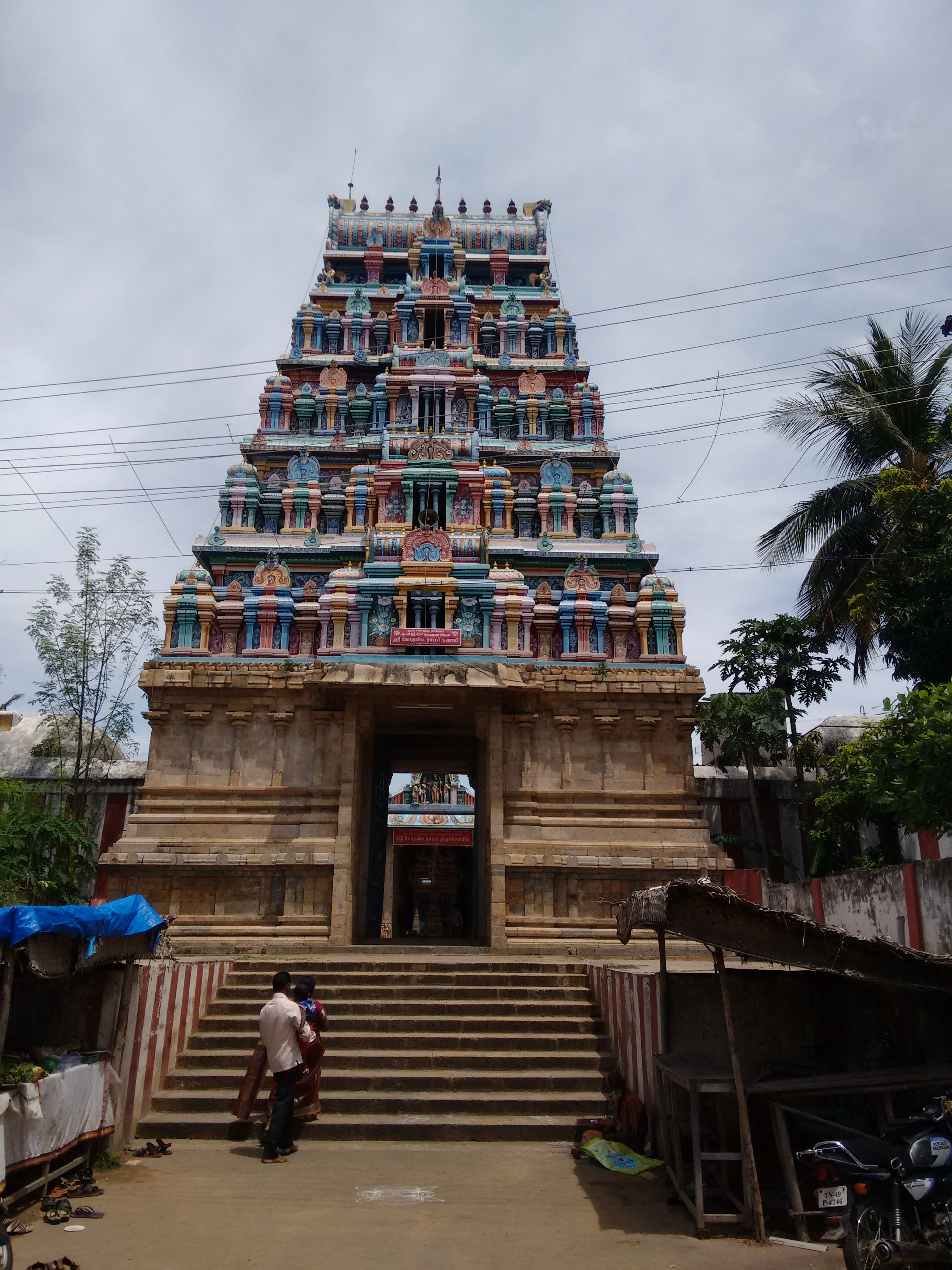 Punnanainallur kothandaramar புன்னைநல்லூர் கோதண்டராமர்கோயில்